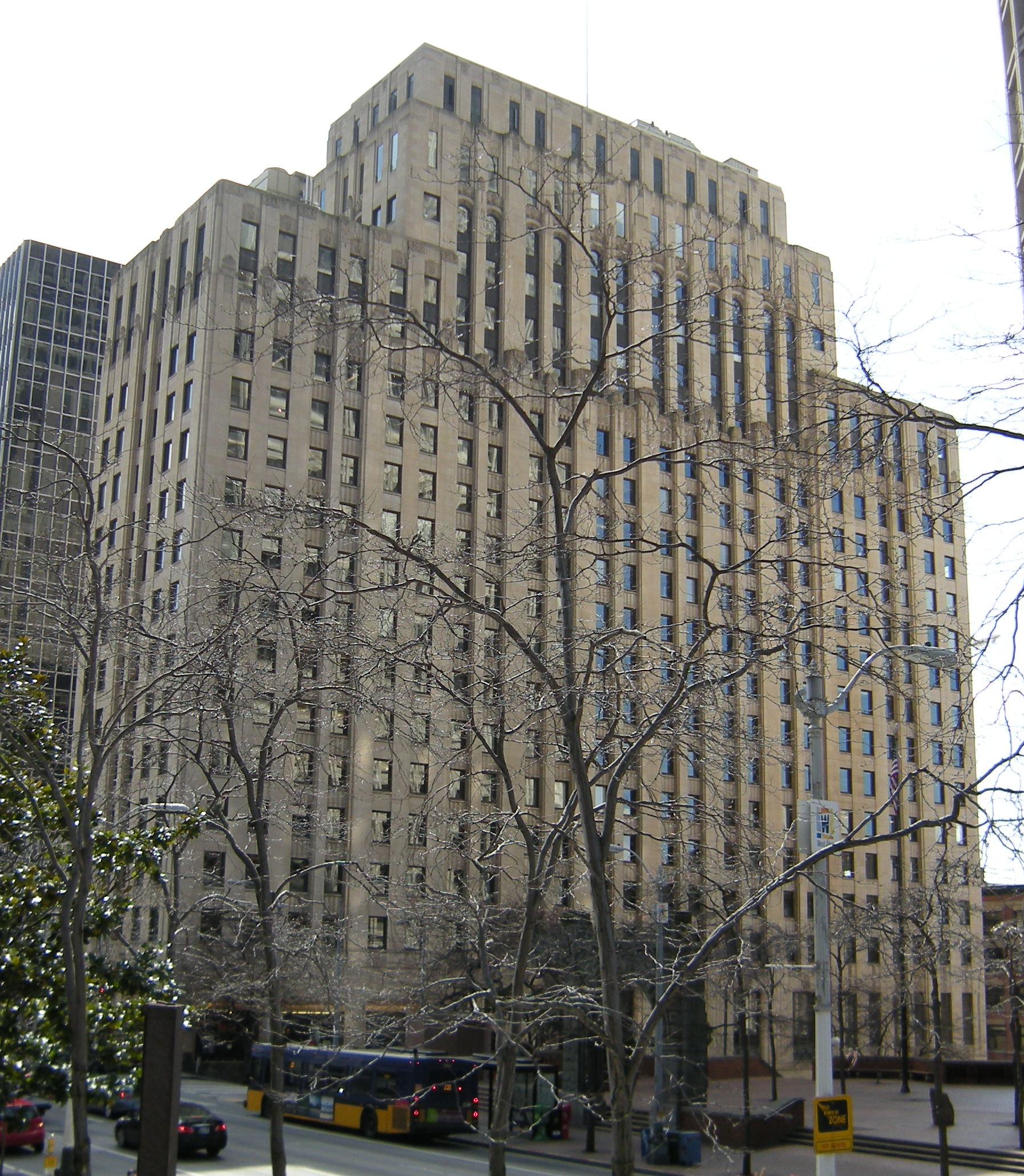 Exchange Building, Seattle, Washington. The art deco office building is an official city landmark.